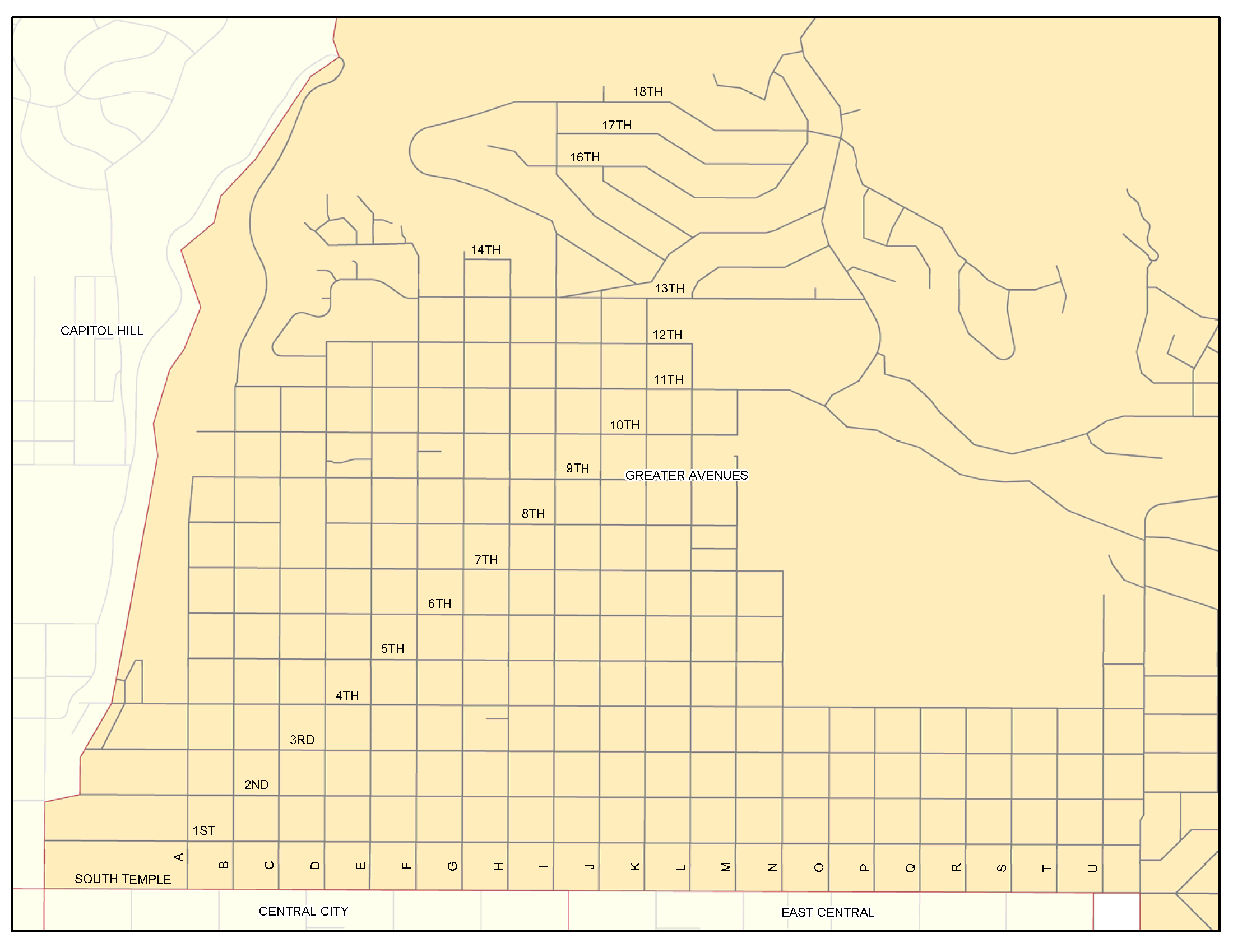 Overhead map of the greater Avenues area, Salt Lake City, Utah.